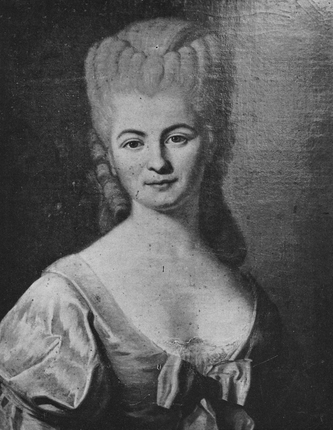 Nicole-Reine Lepaute (1723-1788) french mathematician and astronomer